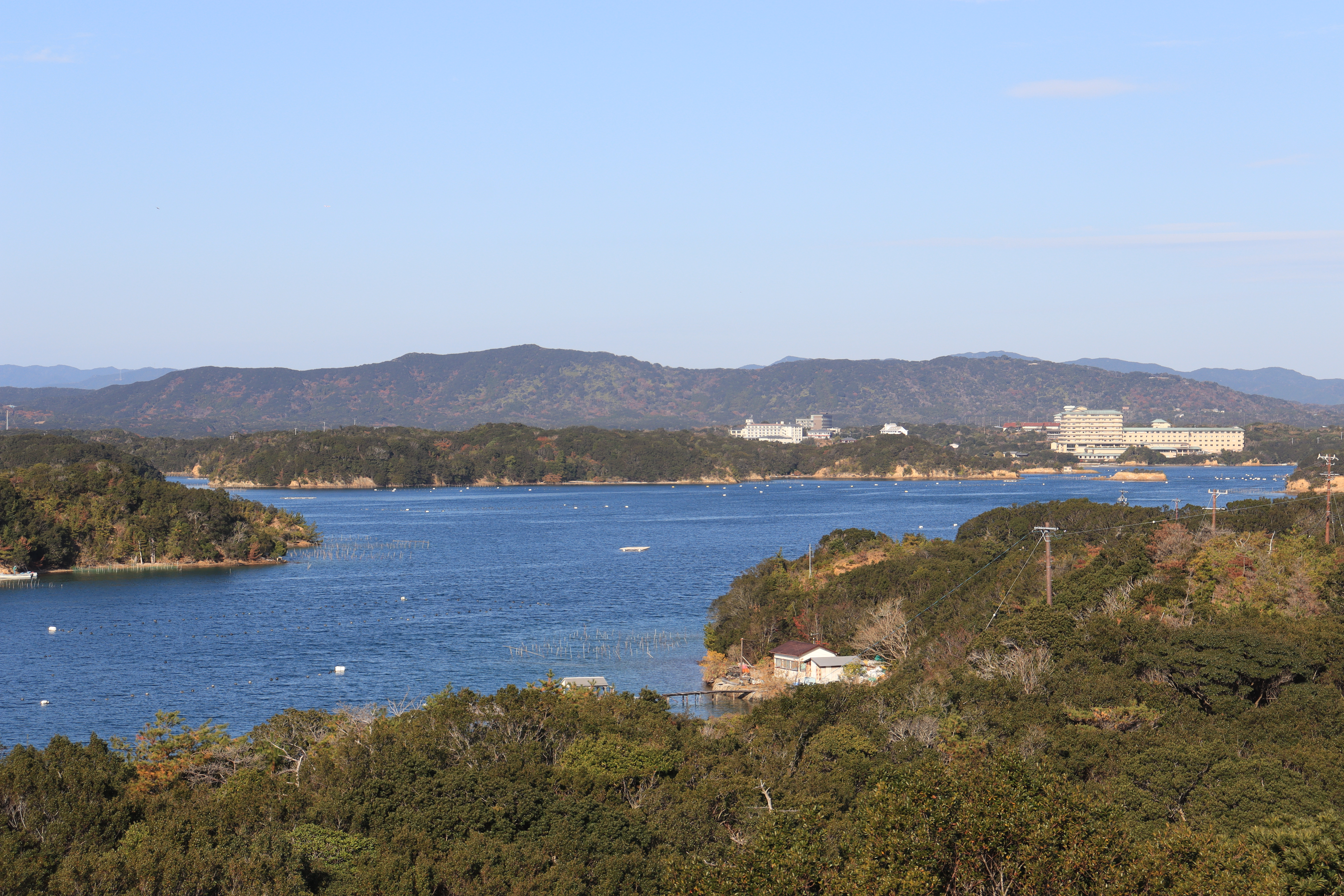 Mount Yoko and islands in Ago Bay seen from TKirigaki viewpoint in Shima, Mie Prefecture, Japan.